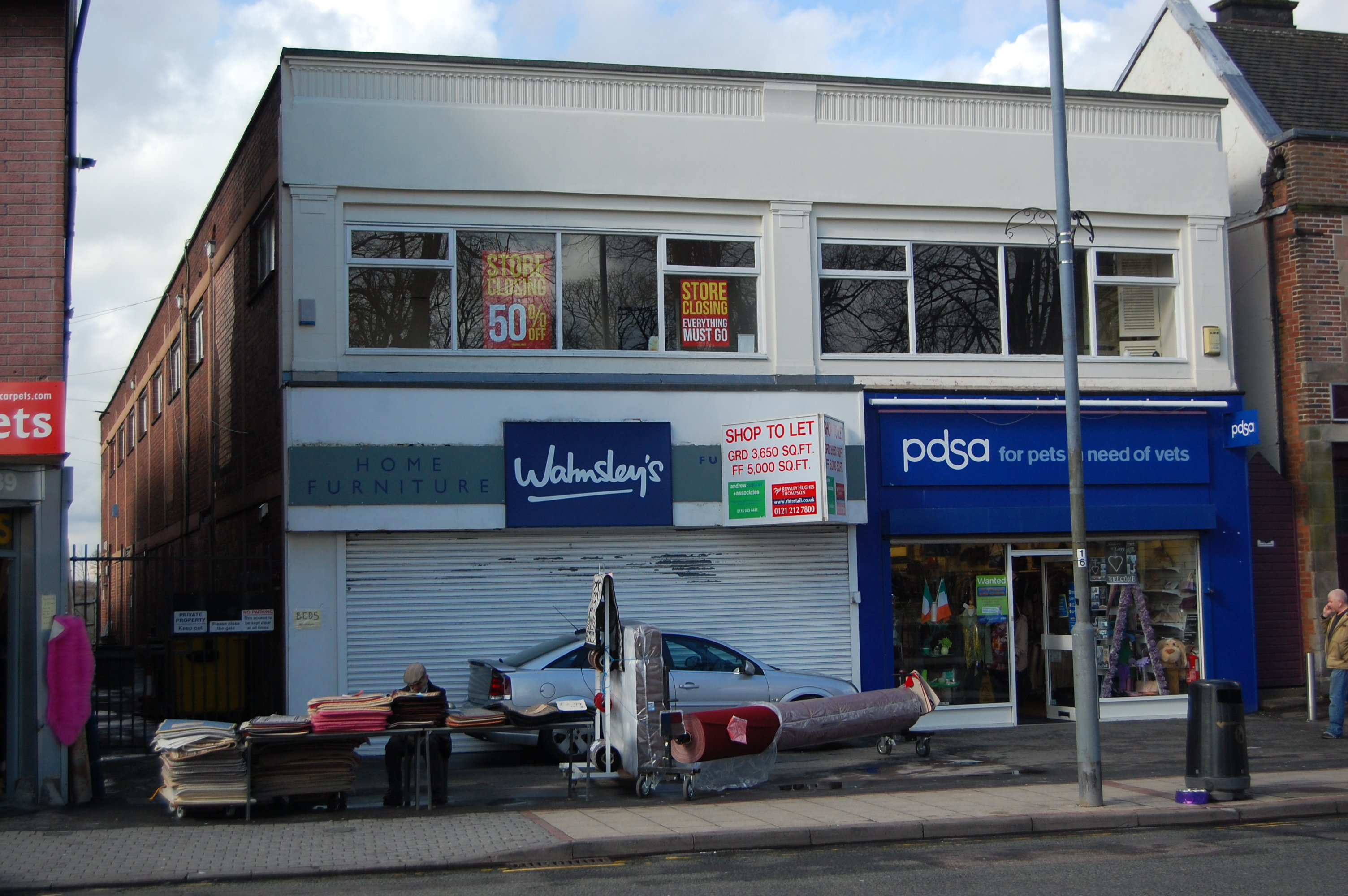 Building in High Street, Erdington, Birmingham, England, the upstairs of which was formerly the music venue Mothers Club.